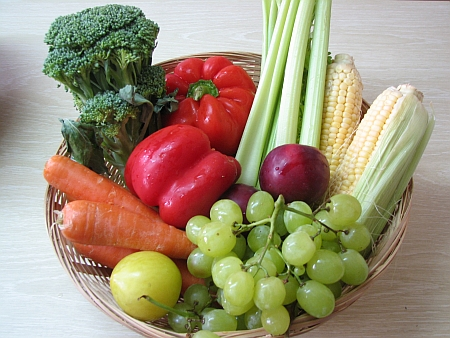 Basket of fruits and vegetables.